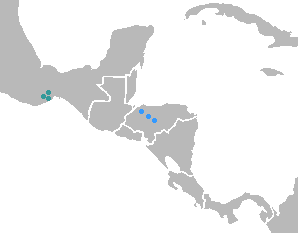 Tolatecan (Tequistlatecan-Tolan) languages of Mexico and Honduras: Mexico (from north to soth): tequistlateco (properly), Highland Chontal, Lowland Chontal Honduras (from west to east): Jicaque (El Palmar), Tol of Montaña de la Flor, Tol of Orica area.